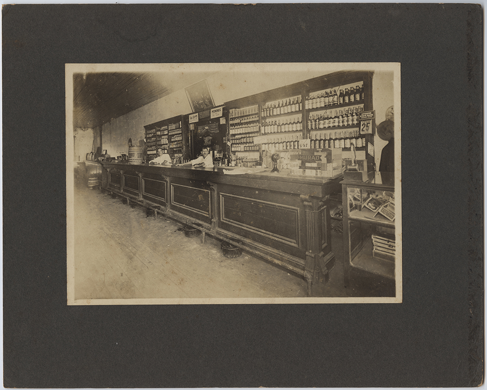 Title: [Saloon, Bastrop, Texas] Creator: Unknown Date: ca. 1910 Part of: Lawrence T. Jones III Texas photography collection Series: Series 4: Texas Locations and People Place: Bastrop, Bastrop County, Texas Physical Description: 1 photographic print: gelatin silver; 12.7 x 17.8 cm. on 20.3 x 25.4 cm. mount File: ag2008_0005_4_1_4_02_bastrop_opt.jpg Rights: Please cite DeGolyer Library, Southern Methodist University when using this file. A high-resolution version of this file may be obtained for a fee. For details see the web page. For other information, . For more information and to view the image in high resolution, View Lawrence T. Jones III Texas Photography Collection